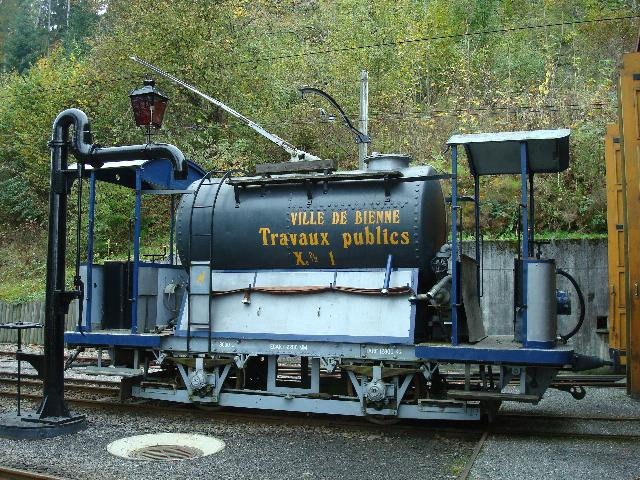 Tramway water car (tramway with water tank for spraying water onto the road) Xe 2/2 1 bougth by the Building Department of the City of Biel, operated by the former Tramways of Bienne (TrB), Verkehrsbetriebe Biel (VB) today, on the grounds of the Museum of Blonay–Chamby museum railway (BC) in Chamby-Musée (Chaulin), Switzerland.